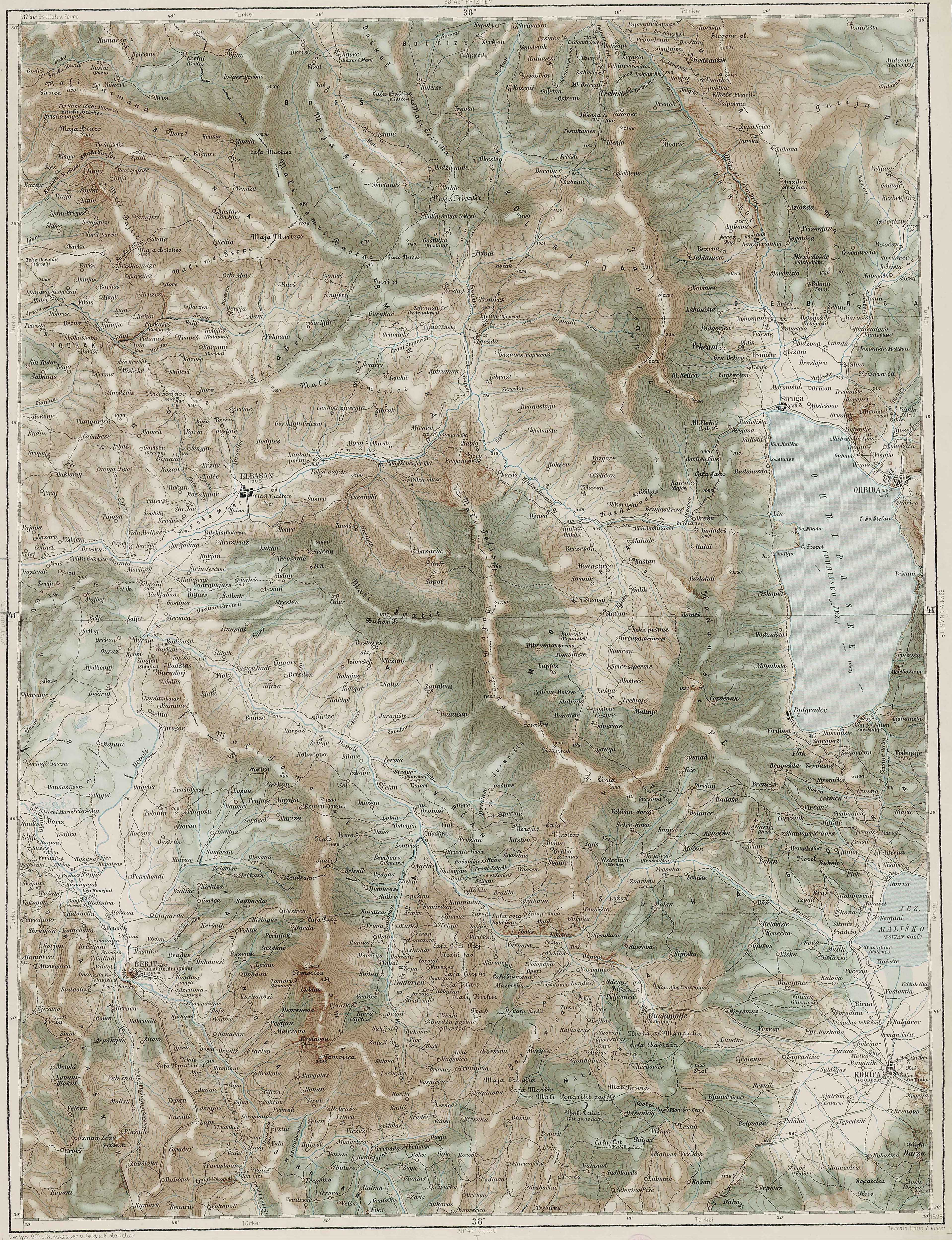 3rd Military Mapping Survey of Austria-Hungary - Elbasan